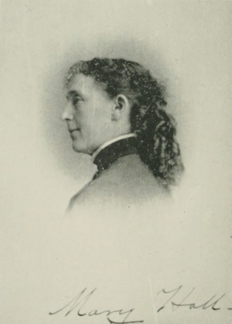 A Woman of the Century